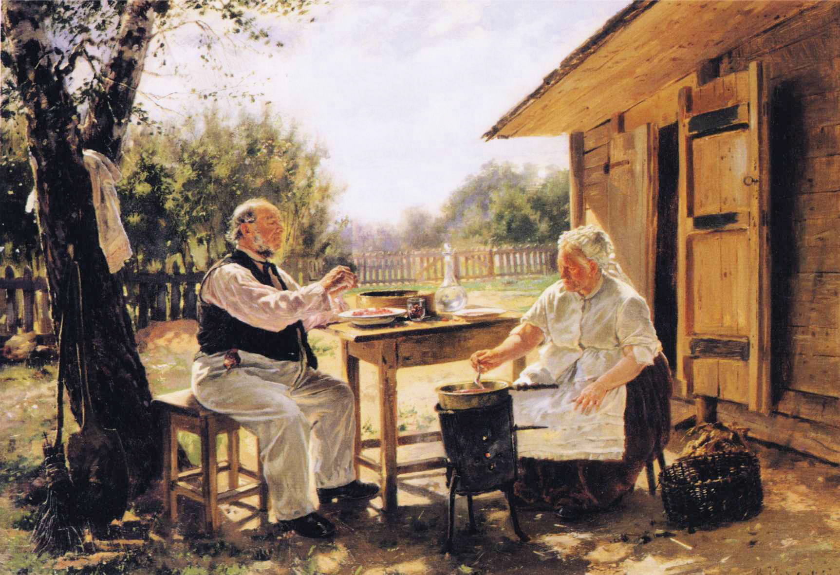 Варят варенье